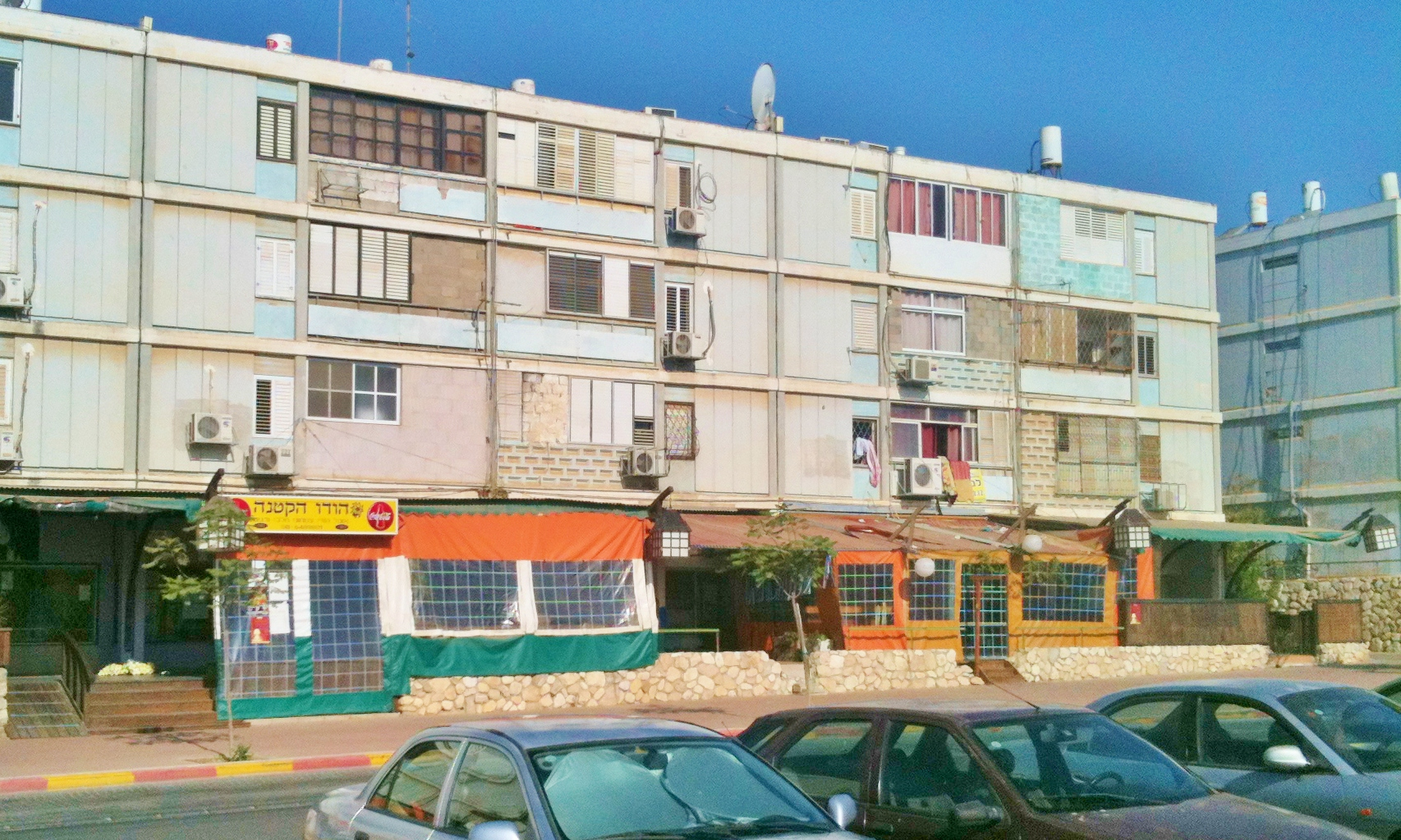 A restaurant block in Ringelblum Street, Beersheba